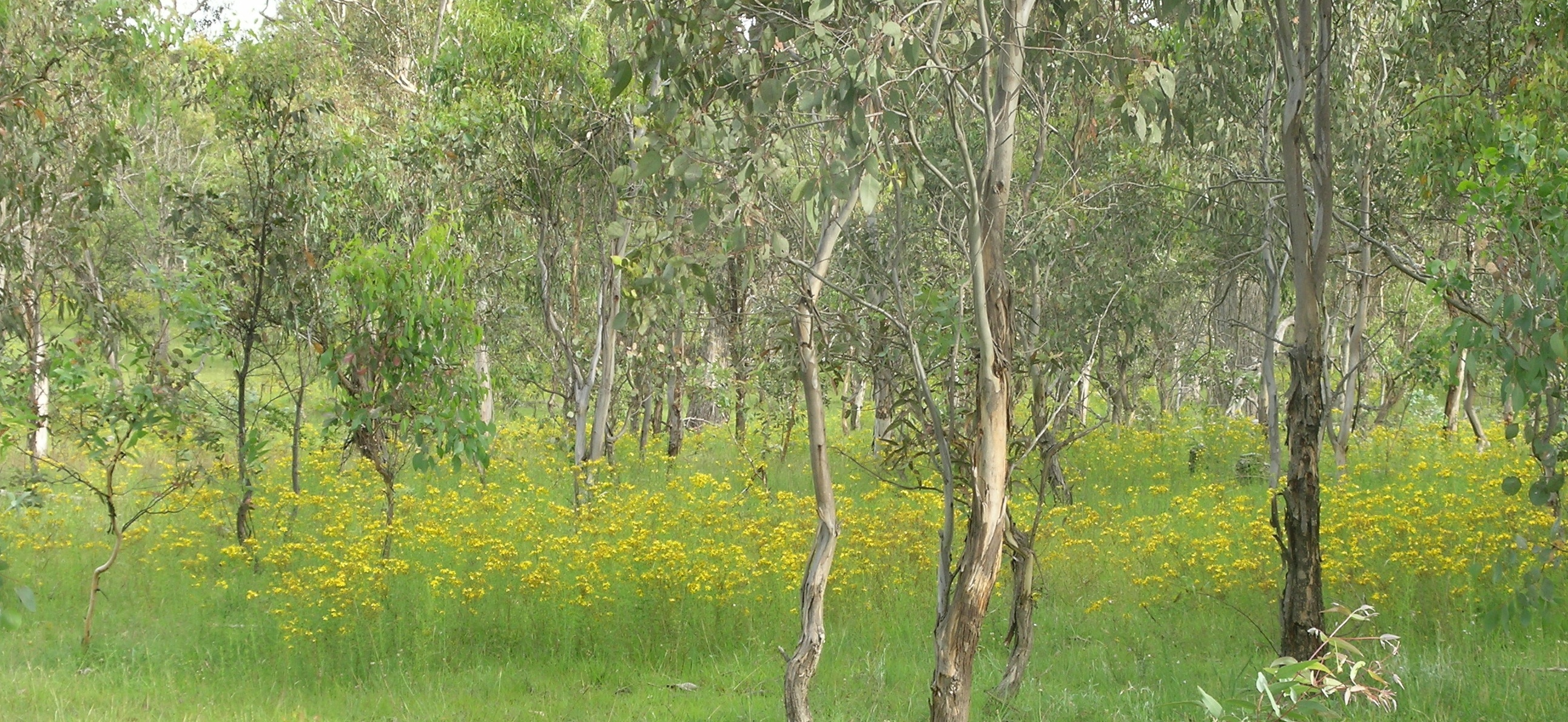 St John's Wort, a weed, growing uncontrolled, on the Northern Tablelands, NSW.